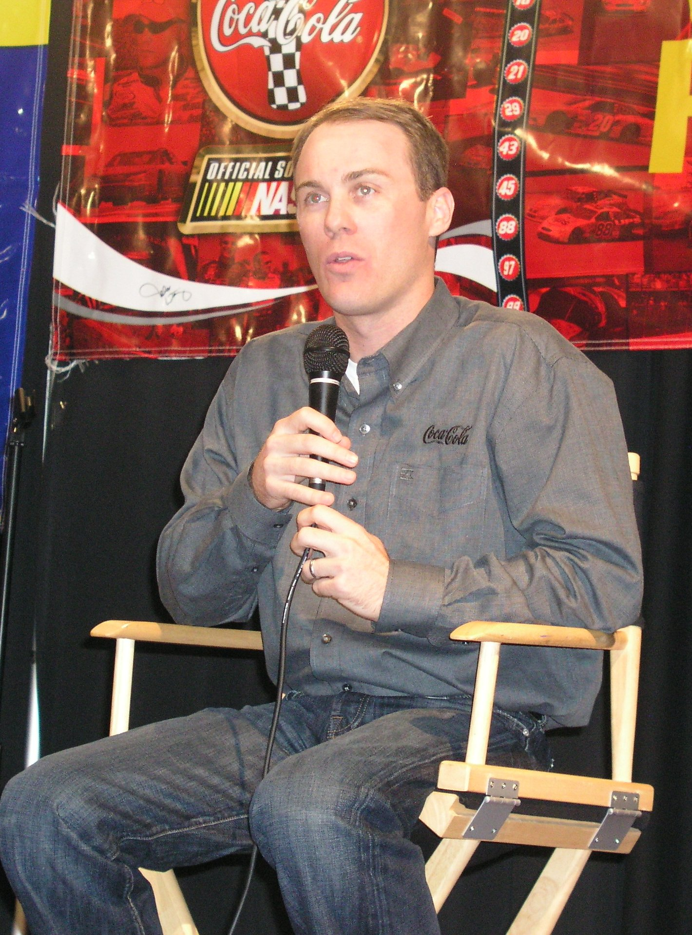 kevin harvick @ zanesville, ohio 11-14-06